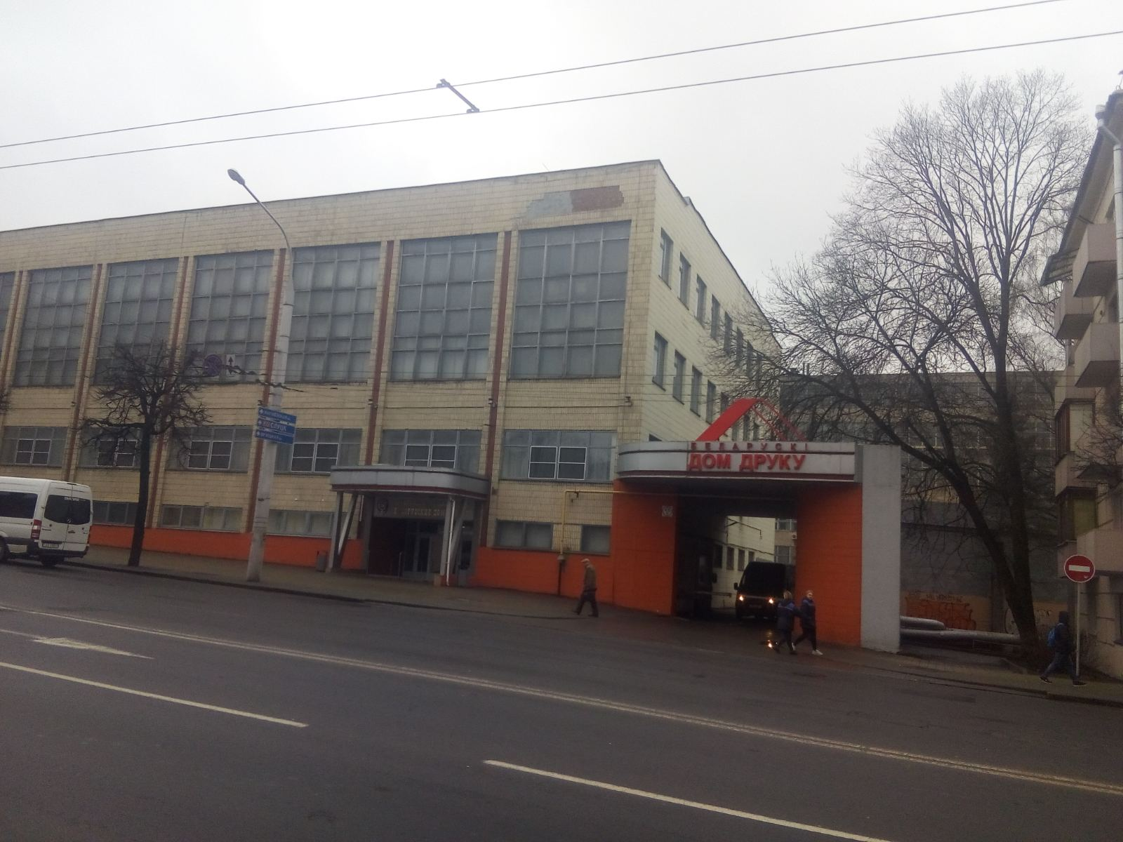 Entrance to the "Belarusian Printing House" on the Surhanava Street in Minsk (Saviecki District; 3rd of March, 2020).